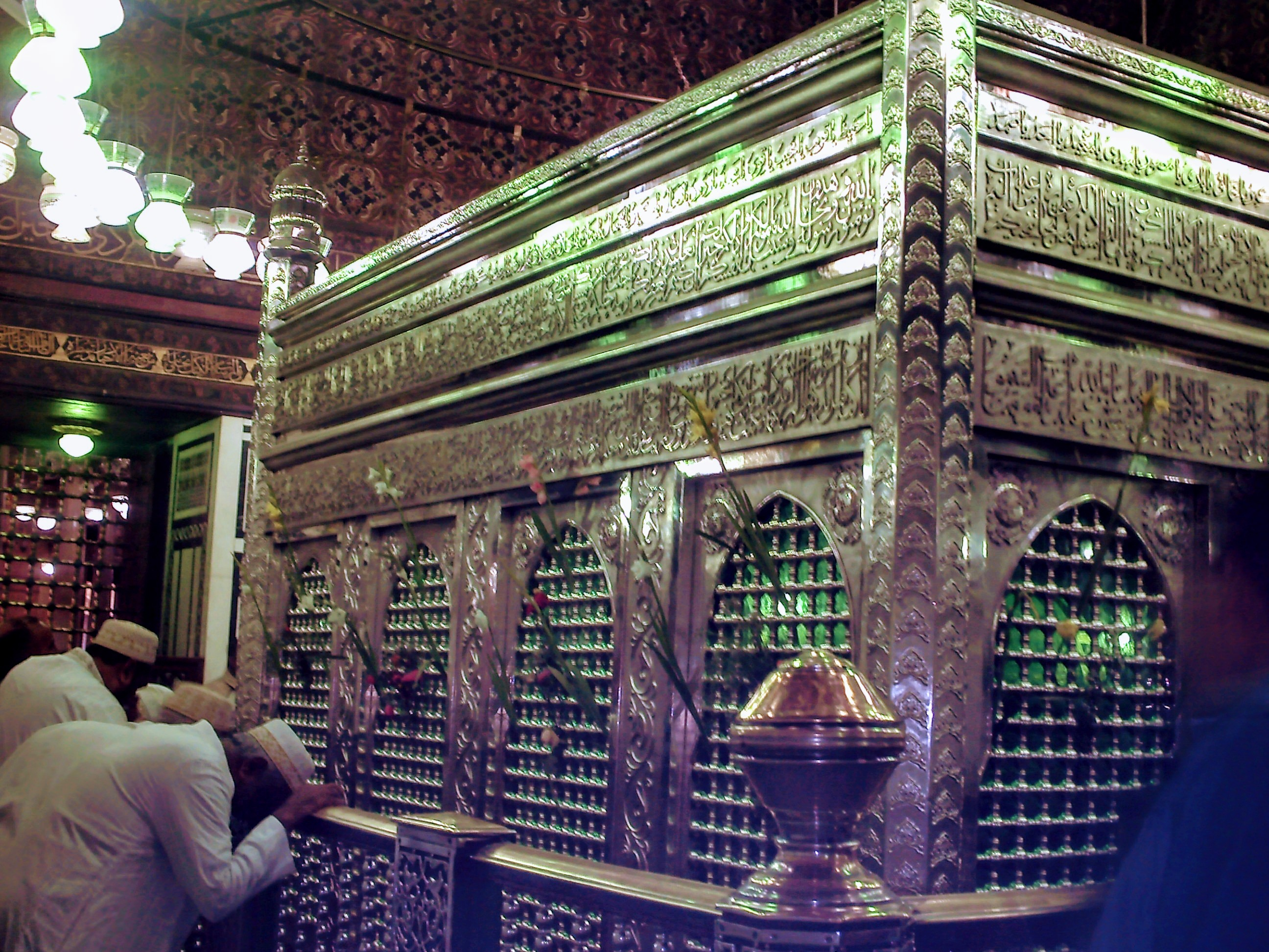 Shrine of Imam husain's head at Cairo egypt